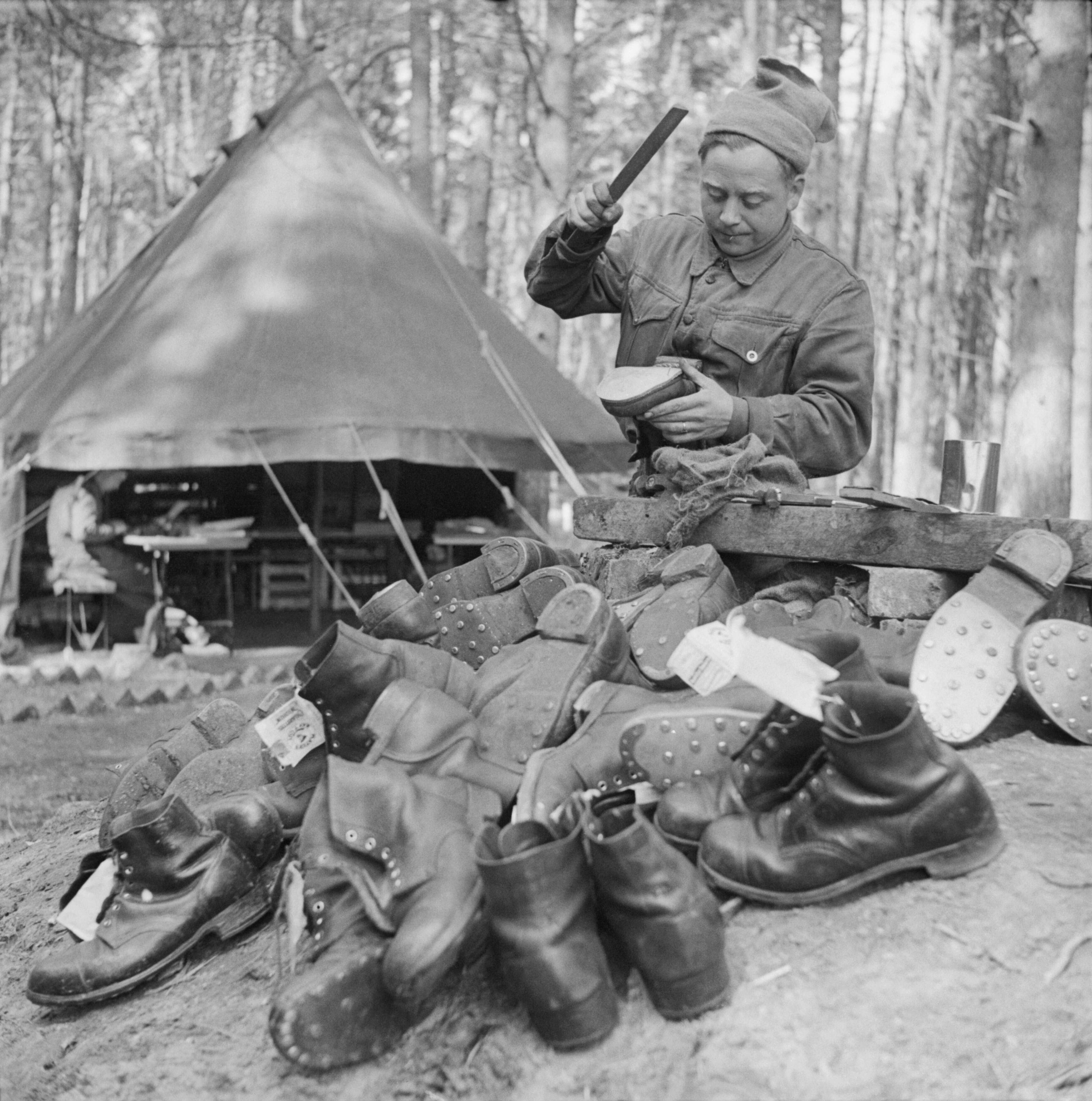 The British Army in the United Kingdom 1939-45 Private Roger Spratt, cobbler with the 1st Battalion, King's Own Scottish Borderers, hard at work in camp at Denmead, Hampshire, 29 April 1944.